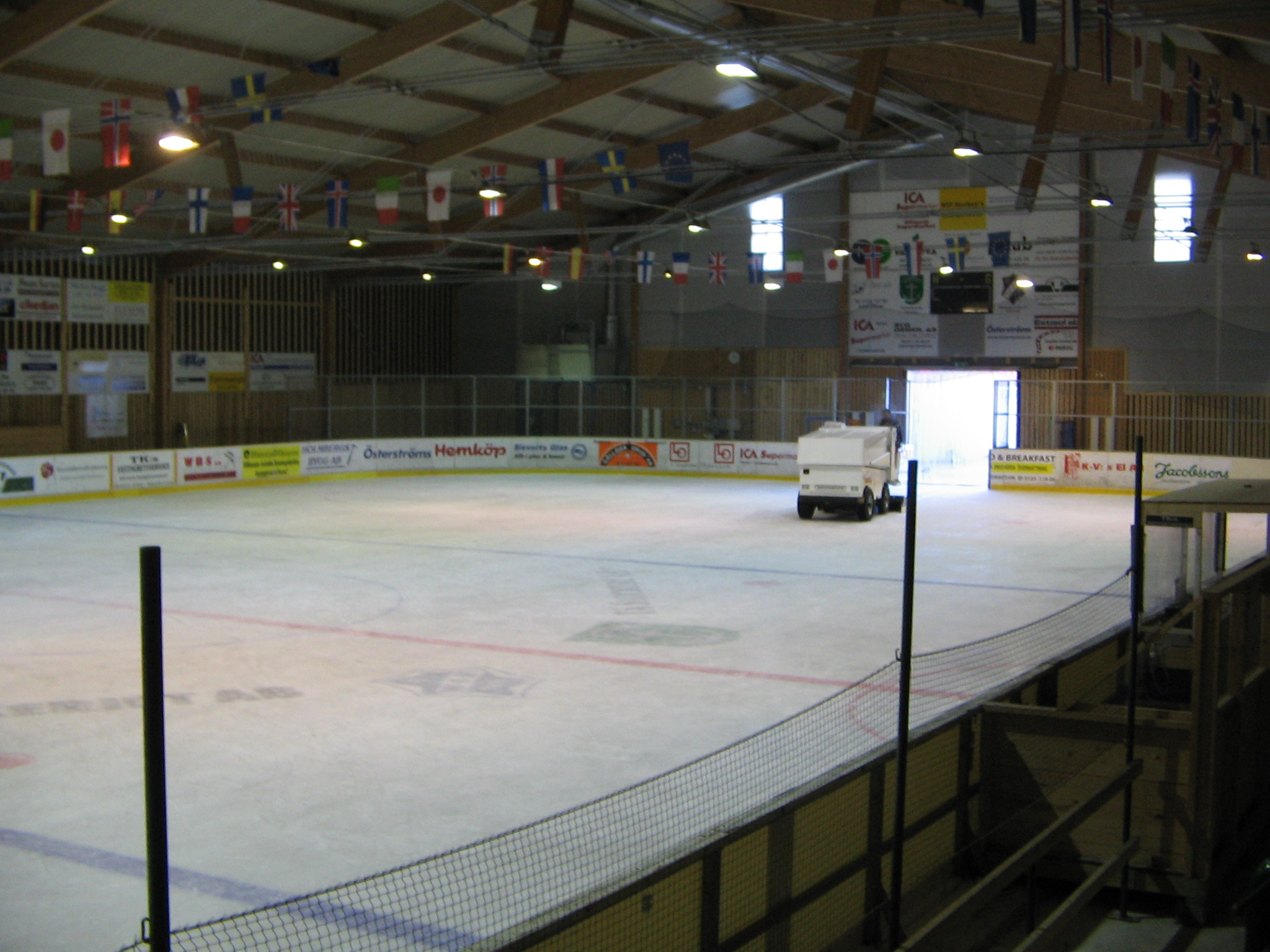 A picture over the ice in Sparbanskhallen